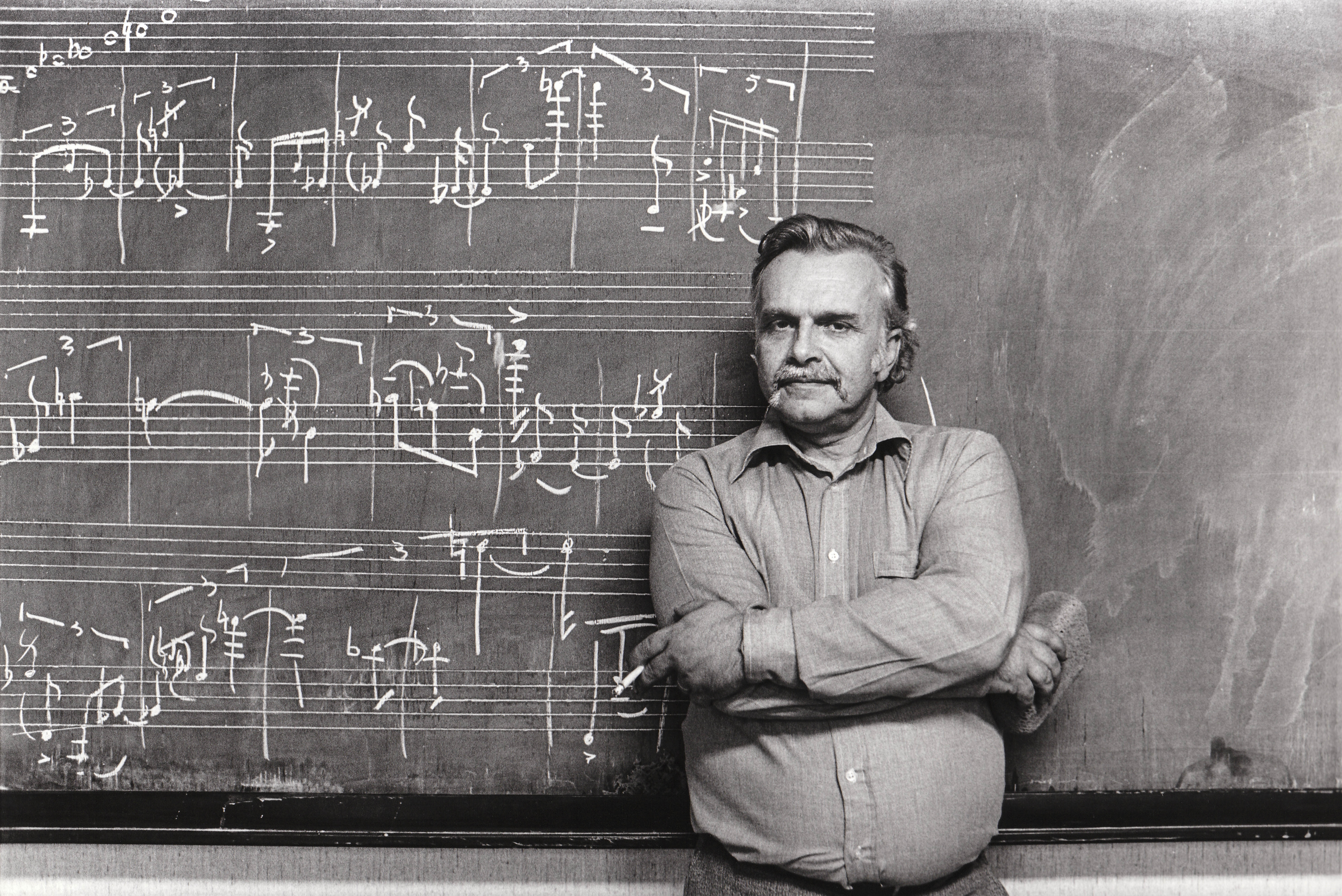 Lucien Goethals (26 June 1931 – 12 December 2006), Belgian composer at IPEM Genth ca. 1984